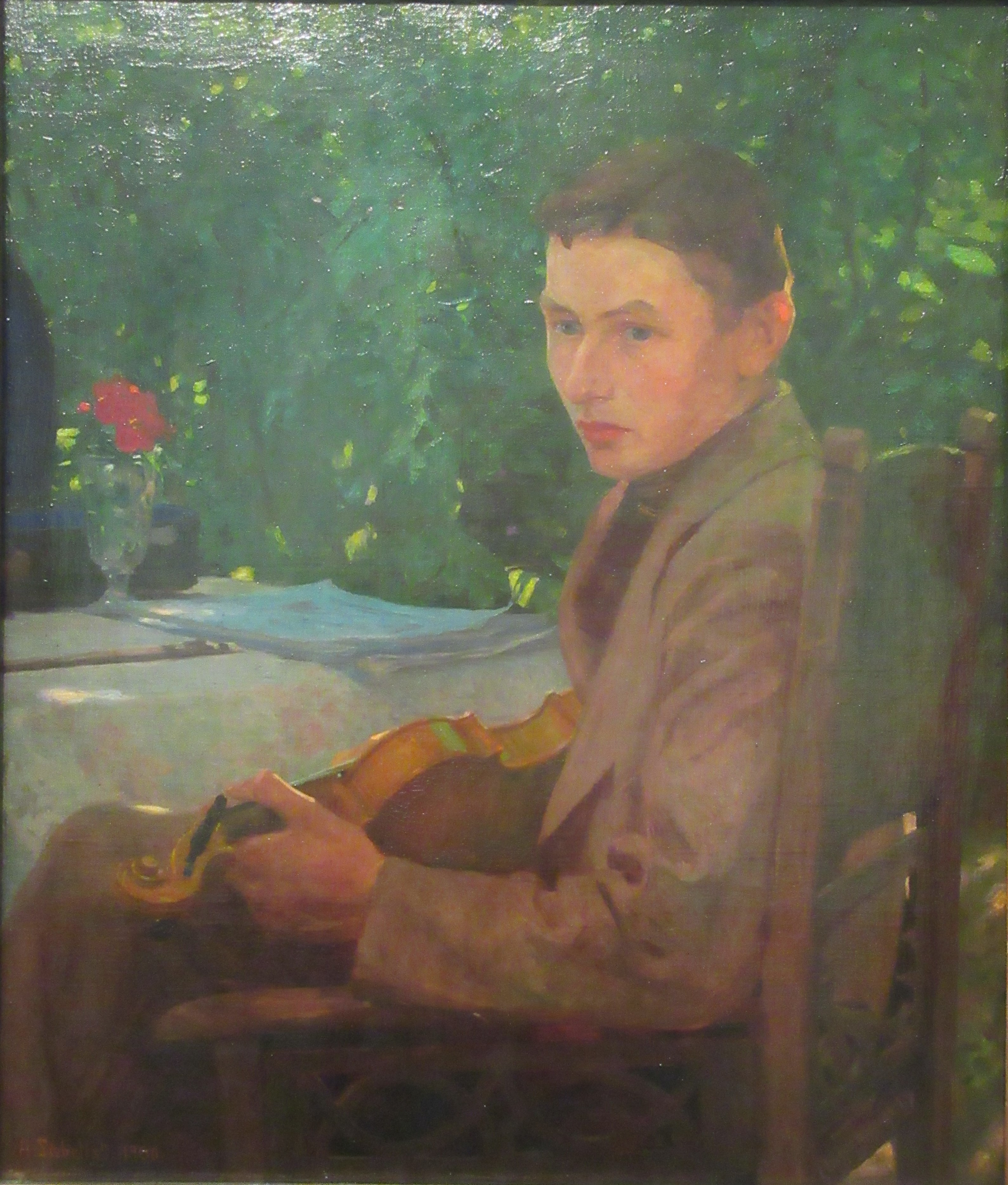 Arthur Siebelist: Der Maler Friedrich Ahlers-Hestemann, Hamburger Kunsthalle